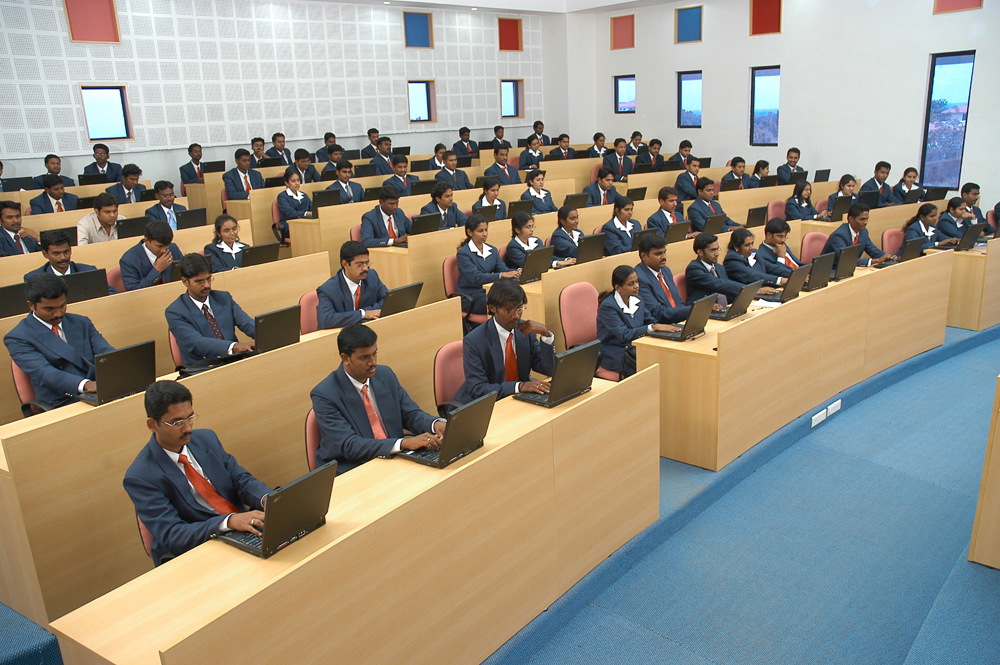 Classroom in Jansons School of Business, Coimbatore, India